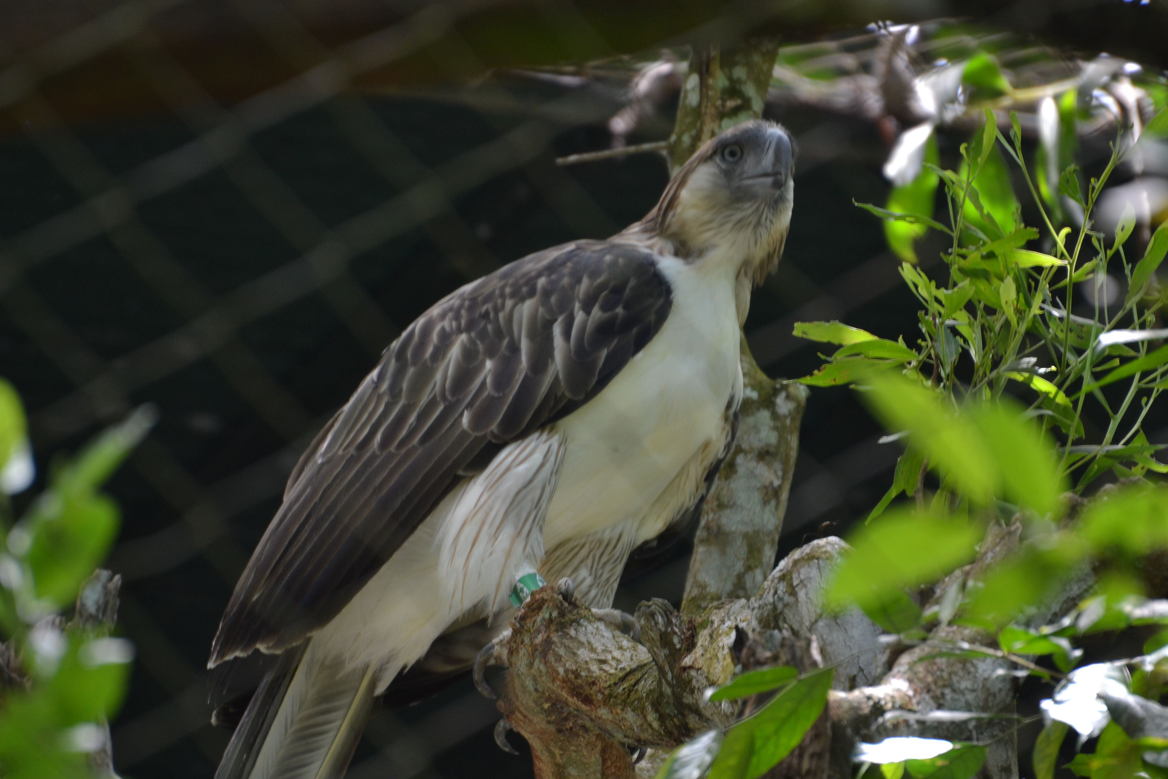 I had read on another site that the Phil. monkey eating eagle does not actually eat monkeys. Natives used monkey meat to trap the bird and kill it, as it used to target their live stock. Due to this affinity for the monkey meat, the bird came to be known as the monkey eating eagle. Well, whatever rocks your boat! Here is another shot of that faraway eagle. The fellow kept hiding his face behind the patch of leaves you see at the extreme right, and it took me quite a while to capture this and the previous shot. (Davao, Philippines, May 2013)